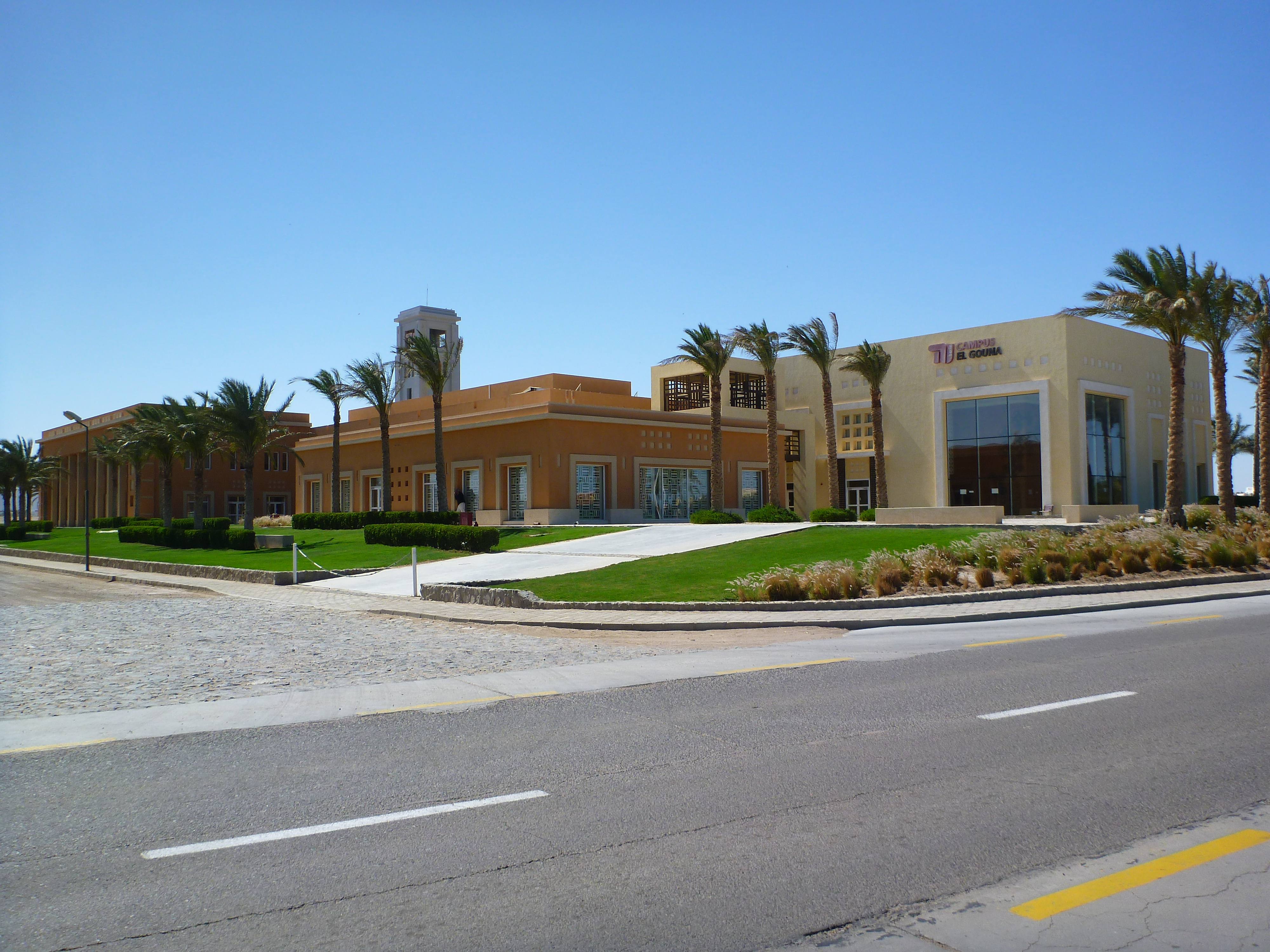 Camput of TU Berlin in El Gouna, Egypt